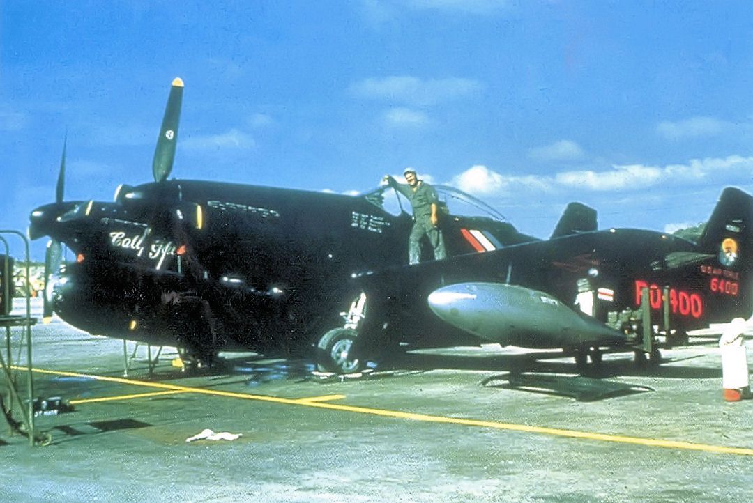 North American P-82G Twin Mustang 4th Fighter Squadron 46-400 "Call Girl" 1950 at Naha Air Base, Okinawa